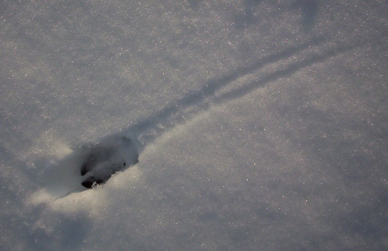 Roe deer (Capreolus capreolus) track